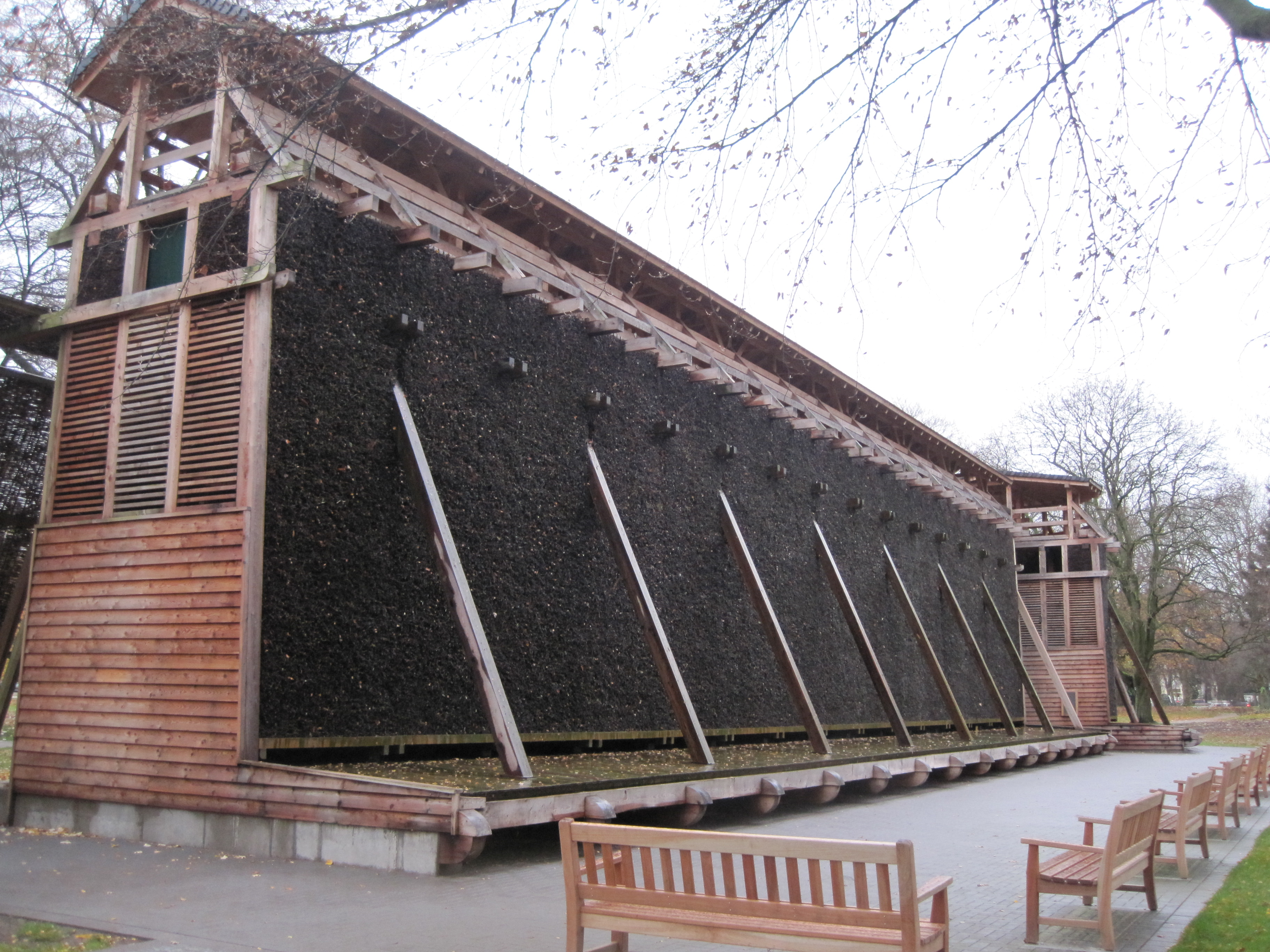 The graduation house in the spa gardens western part. It is a fake building, the brine comes from a tank under the building. The historical thermal brine spring ran dry, an even before there was no such facillity within the moderns city limits. The Cities municipal utility service company build on the occasion of their 150 years anniversary as asset to the spa gardens in 2008/09 and gift to the citizens .